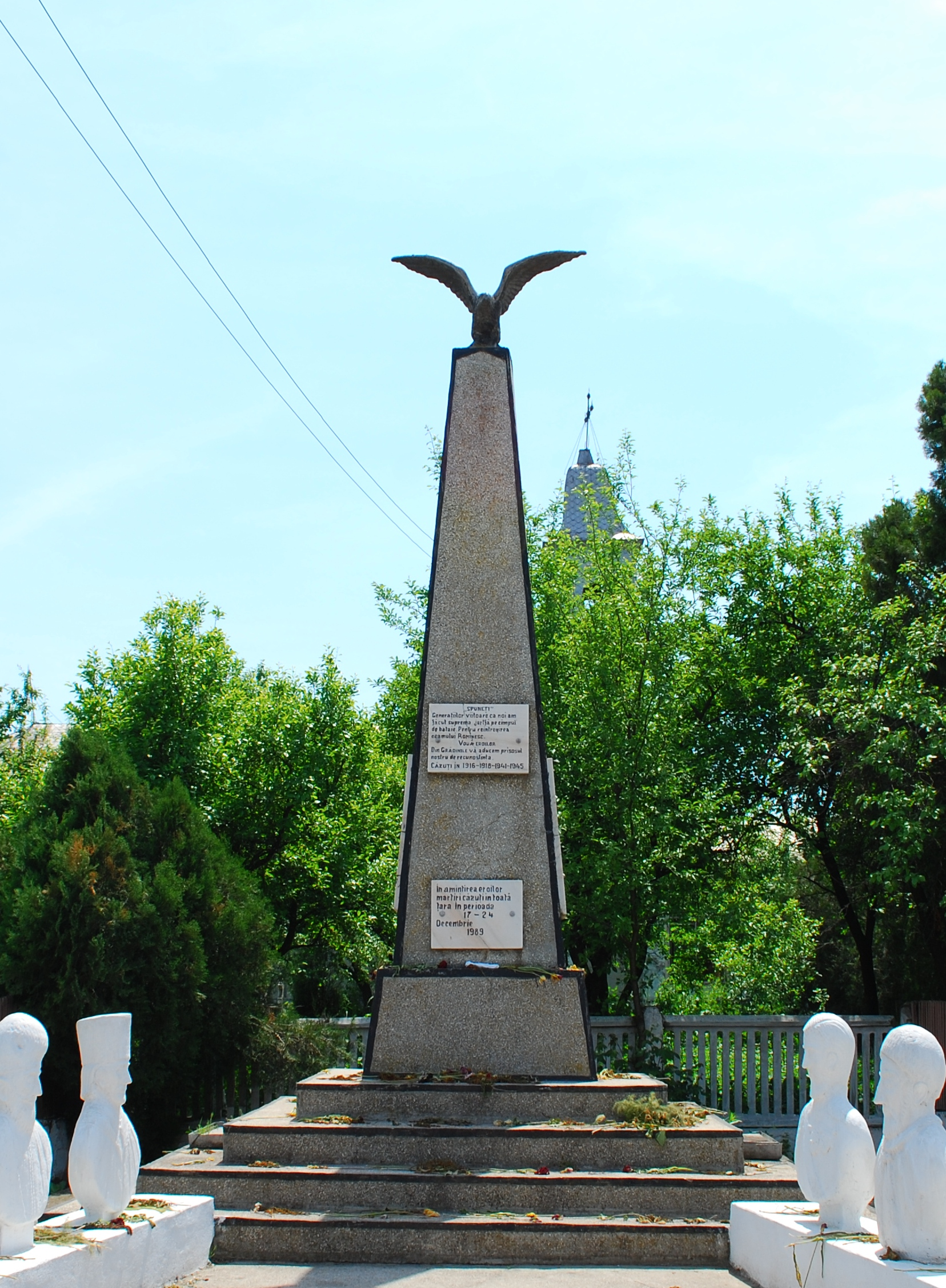 Monument in Grădinile, Olt County, Romania